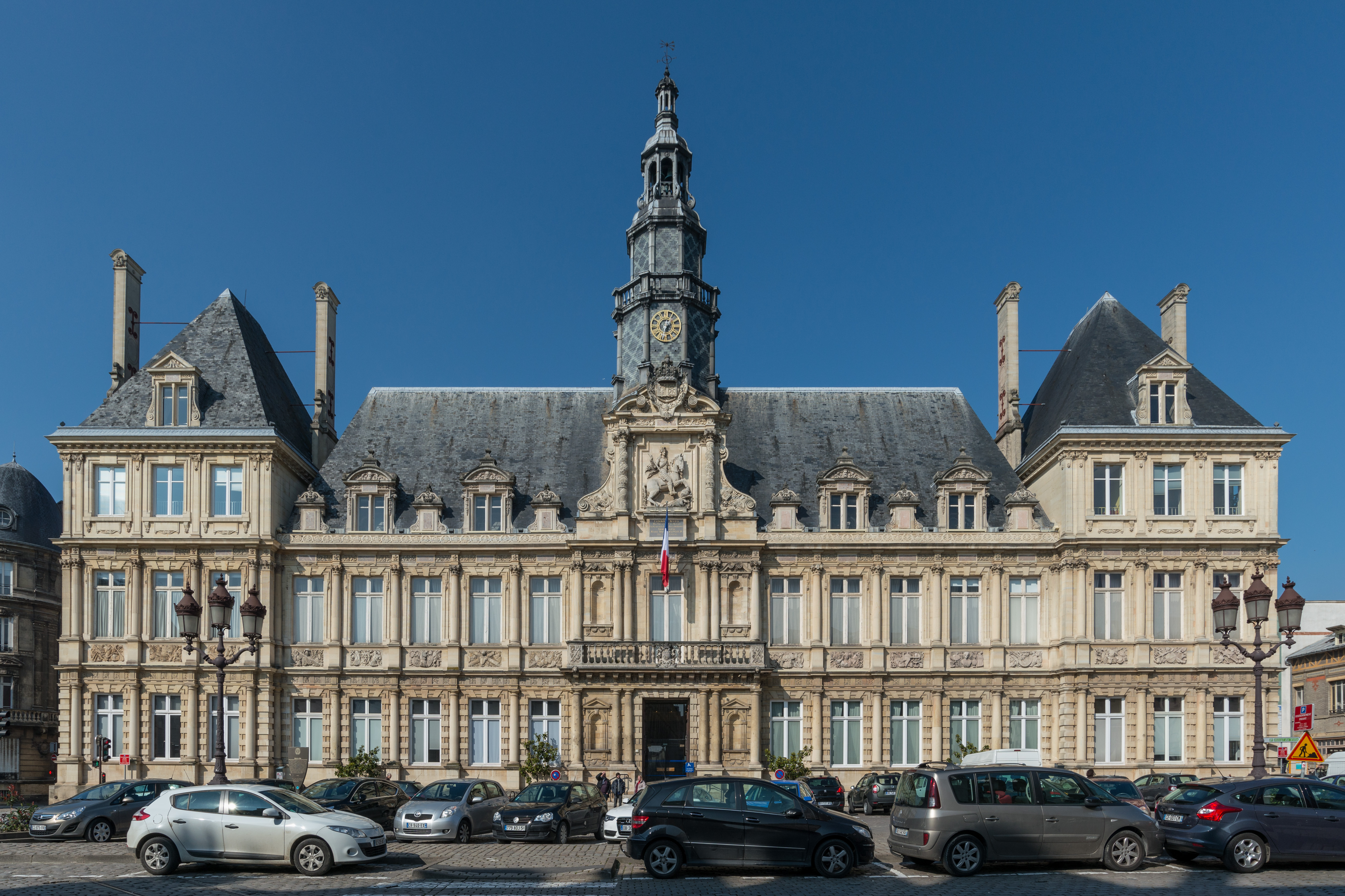 The city hall of Reims as seen from south-east.